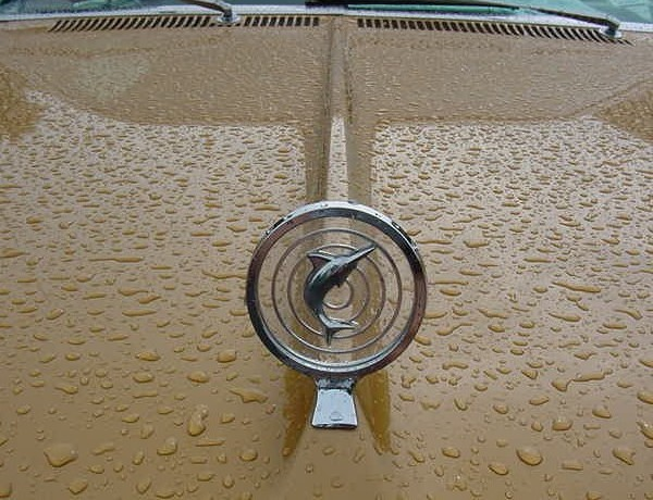 The wet hood ornament on a 1967 Marlin by American Motors (AMC), a full-sized, two-door pillarless fastback personal luxury car. Finished in "Sungold metallic" (paint code P-37) with optional two-tone (white roof and lower bodysides). Photographs taken at the AMCRC car show held in Somerset, New Jersey, USA, August 8 and 9, 2003.